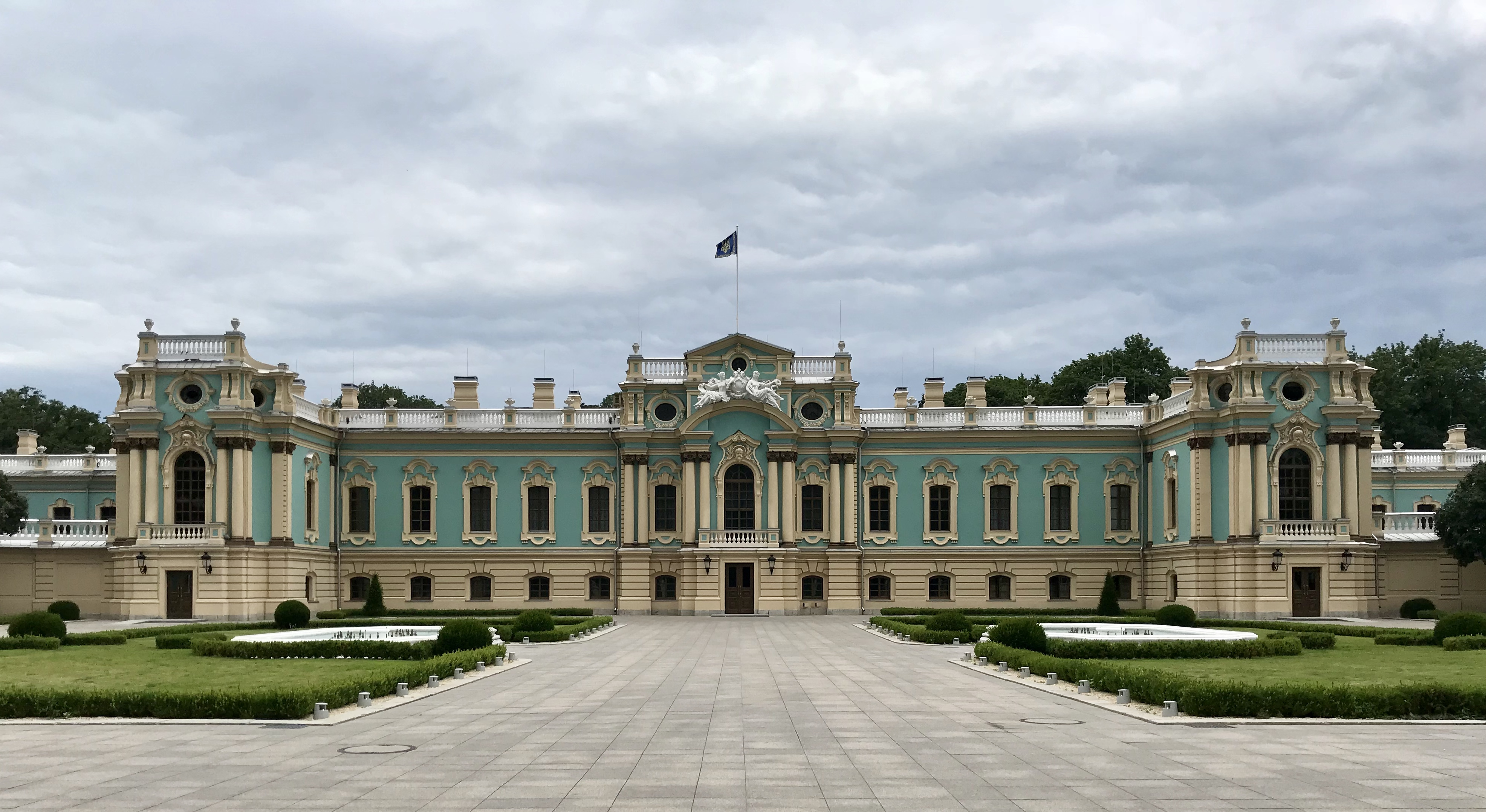 Kiev's Mariinsky Palace, post-renovation, flying the presidential standard of Ukraine.